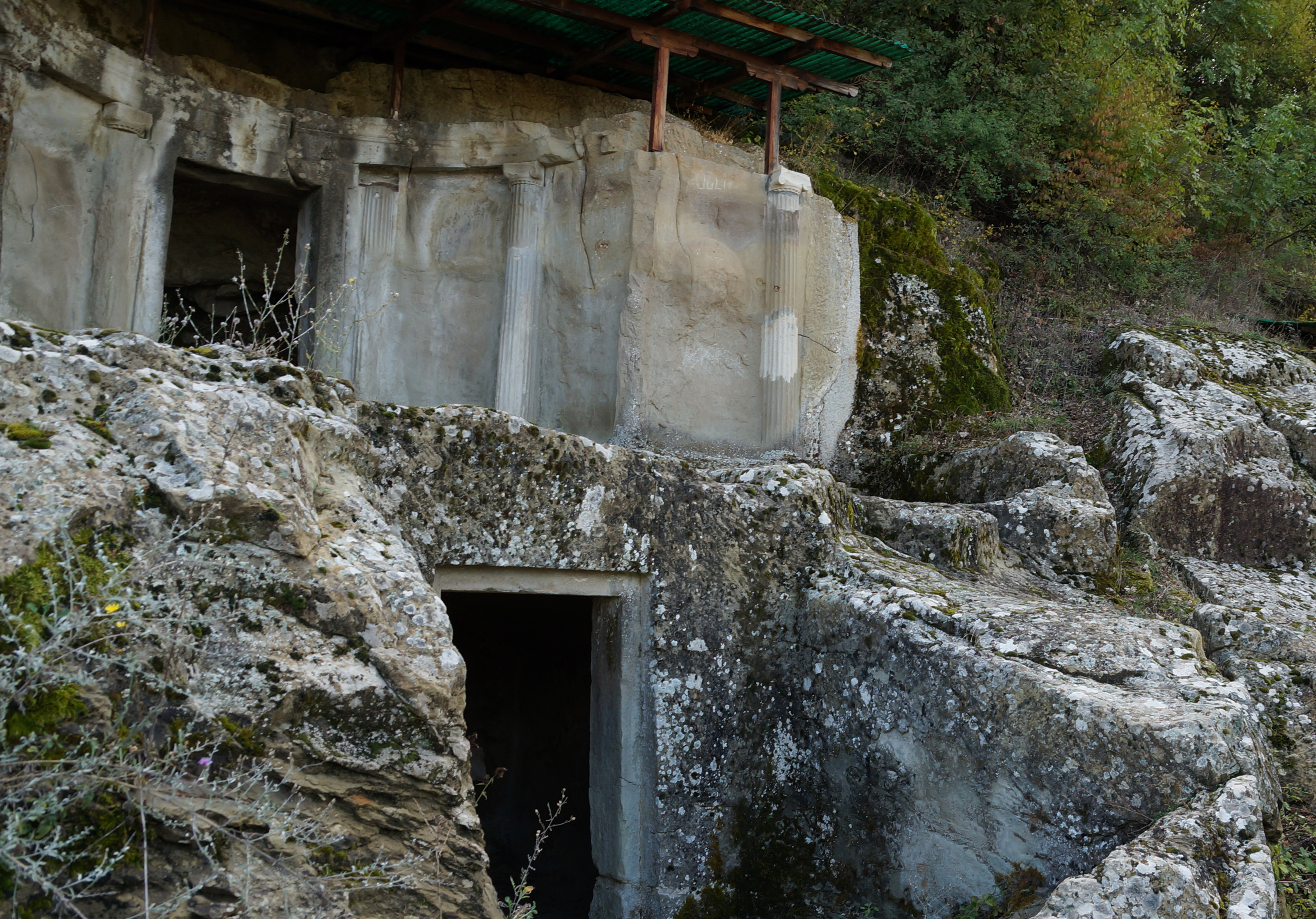 Selca e Poshtme, Albania: Tomb 3